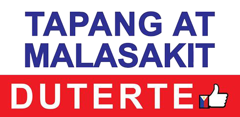 Campaign logo + slogan for Rodrigo Duterte, PDP-Laban candidate for President of the Philippines in 2016